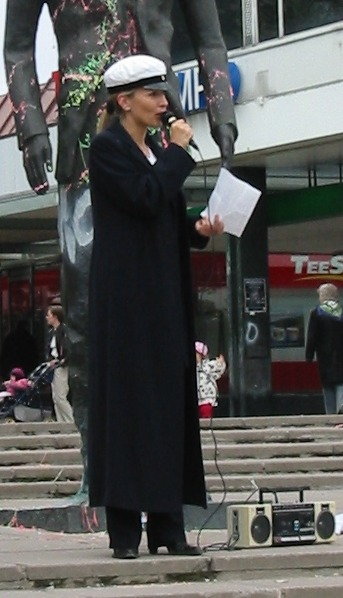 Finnish politician Tanja Karpela speaking in Tapiola at May Day 2002.